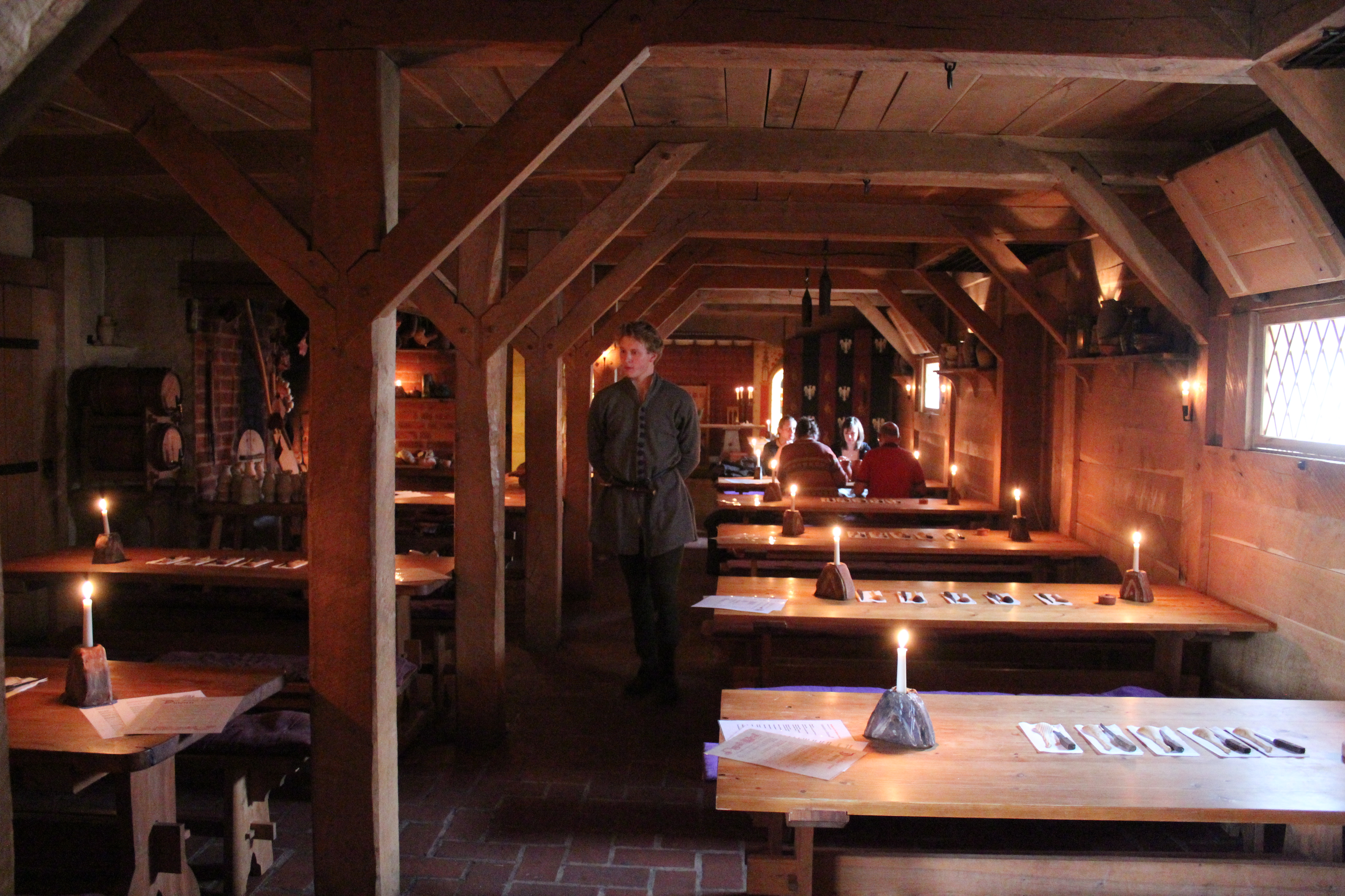 The restuarant The Golden Swan